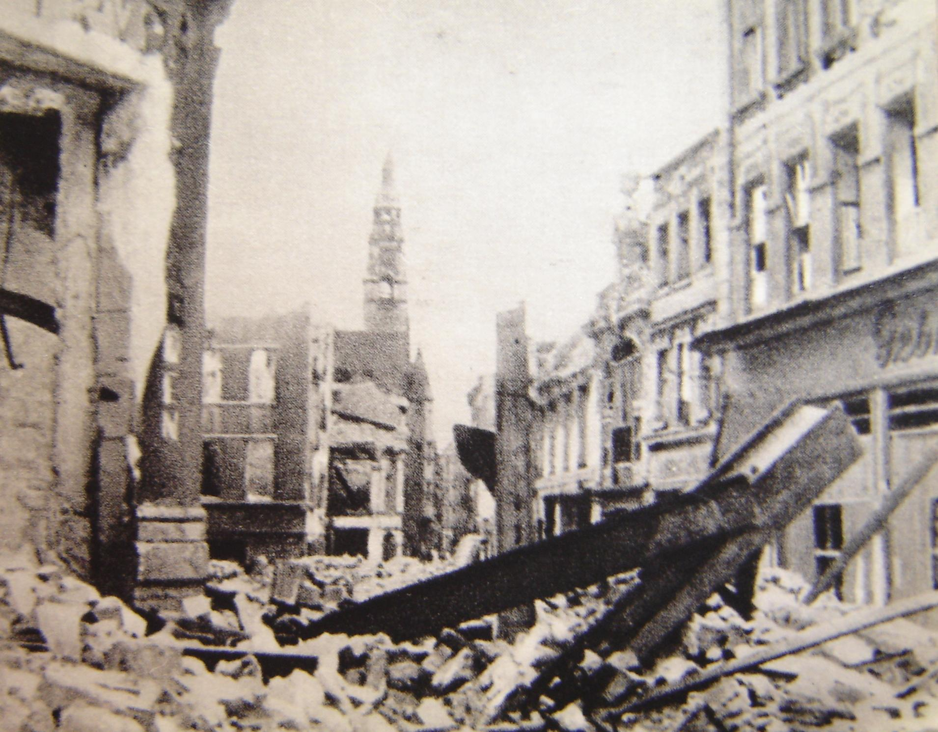 Szczecin (German: Stettin) in 1945. From the 1964 book “Twenty Years of the People's Republic of Poland”